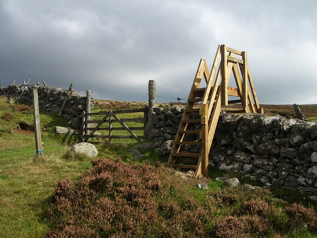 Stile on Cateran Trail. One of several new stiles erected to serve the Cateran Trail. The trail takes the right hand fork once over the stile and heads southwards. This stile bears a warning that walkers should descend backwards - not a bad idea as it is quite steep and wooden treads can be slippery in bad weather.